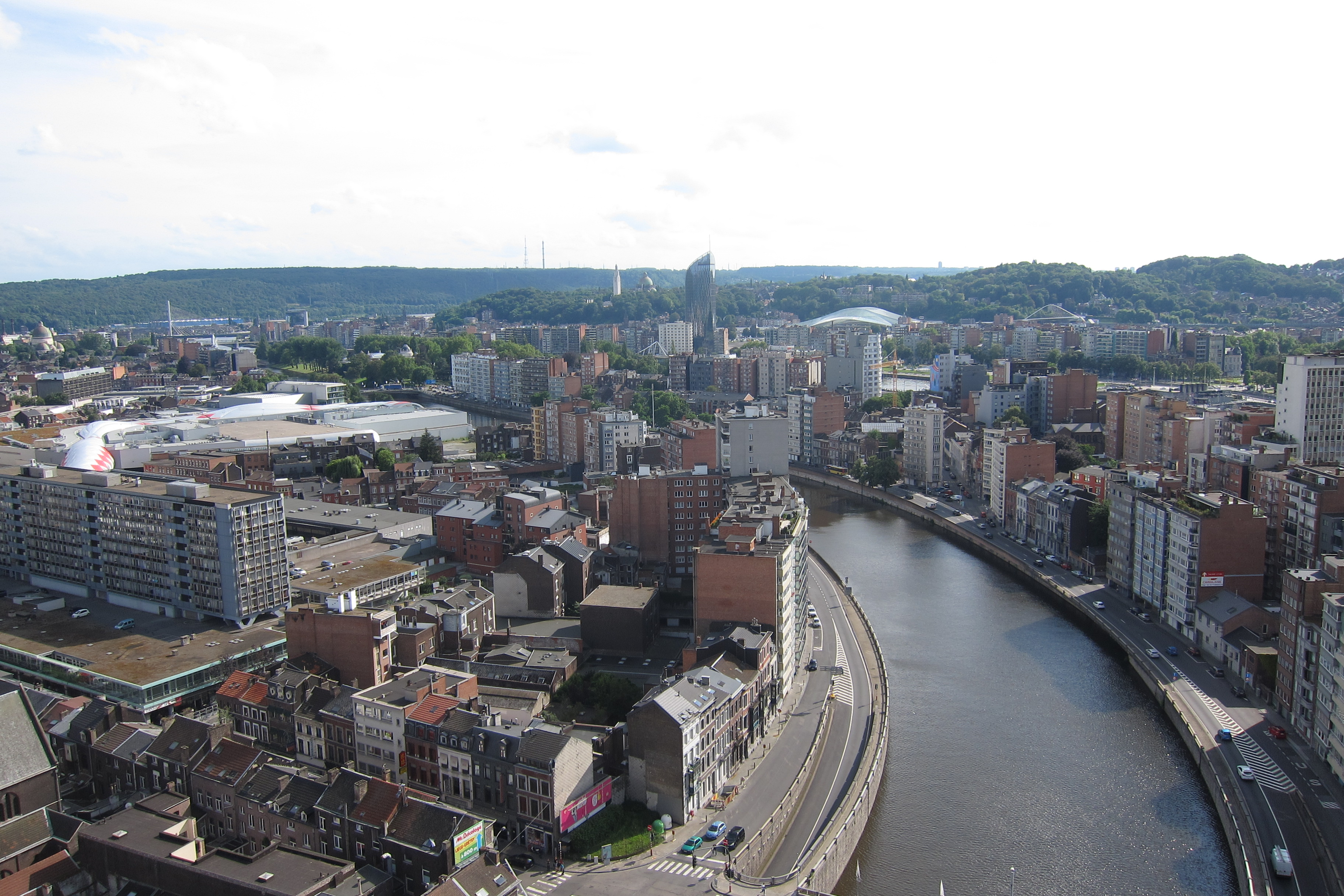 A view of Quai Orban and Quai de la Bouverie in Liège, as seen from the Tour Simenon